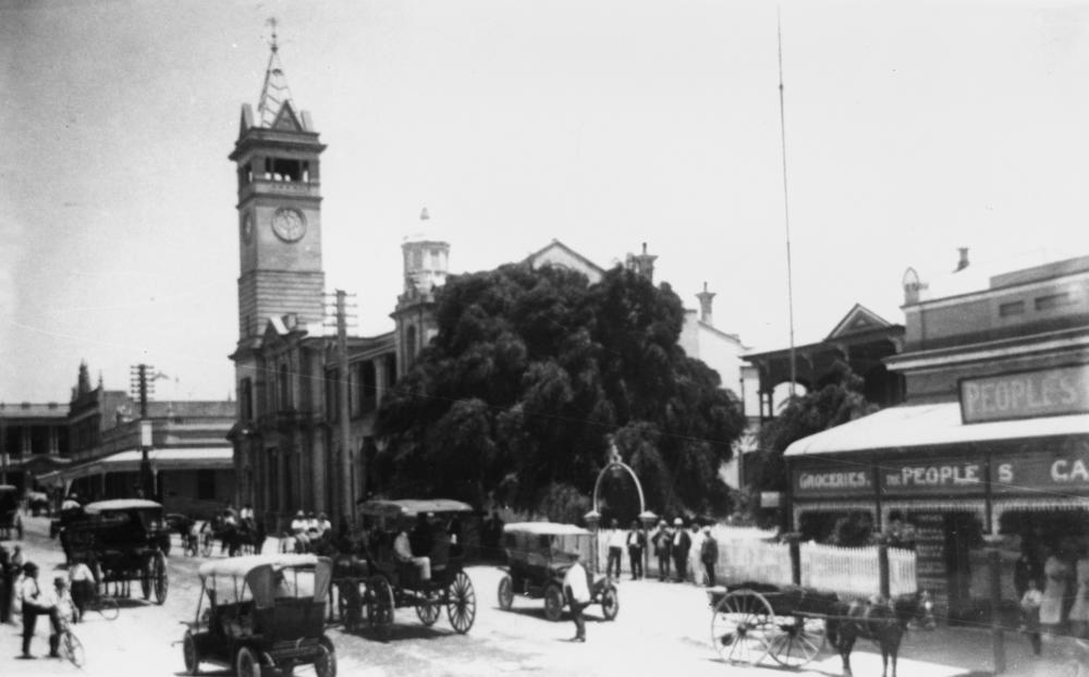 Gill Street in Charters Towers, north Queensland, ca. 1914. View of Gill Street includes the Post Office with clocktower and the Peoples' Cash Store, grocery shop.